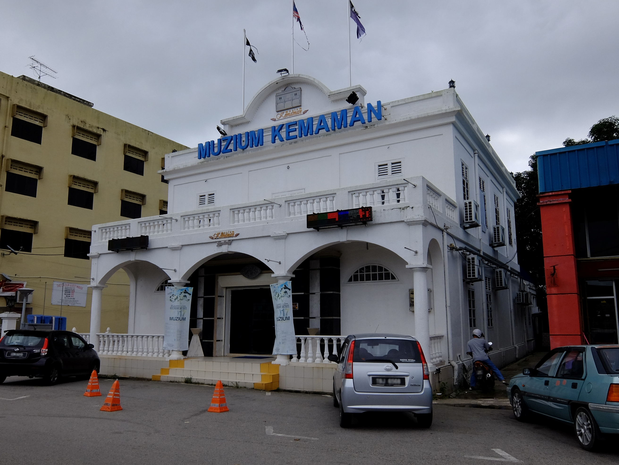 Kemaman Museum, Chukai, Kemaman, Terengganu, Malaysia